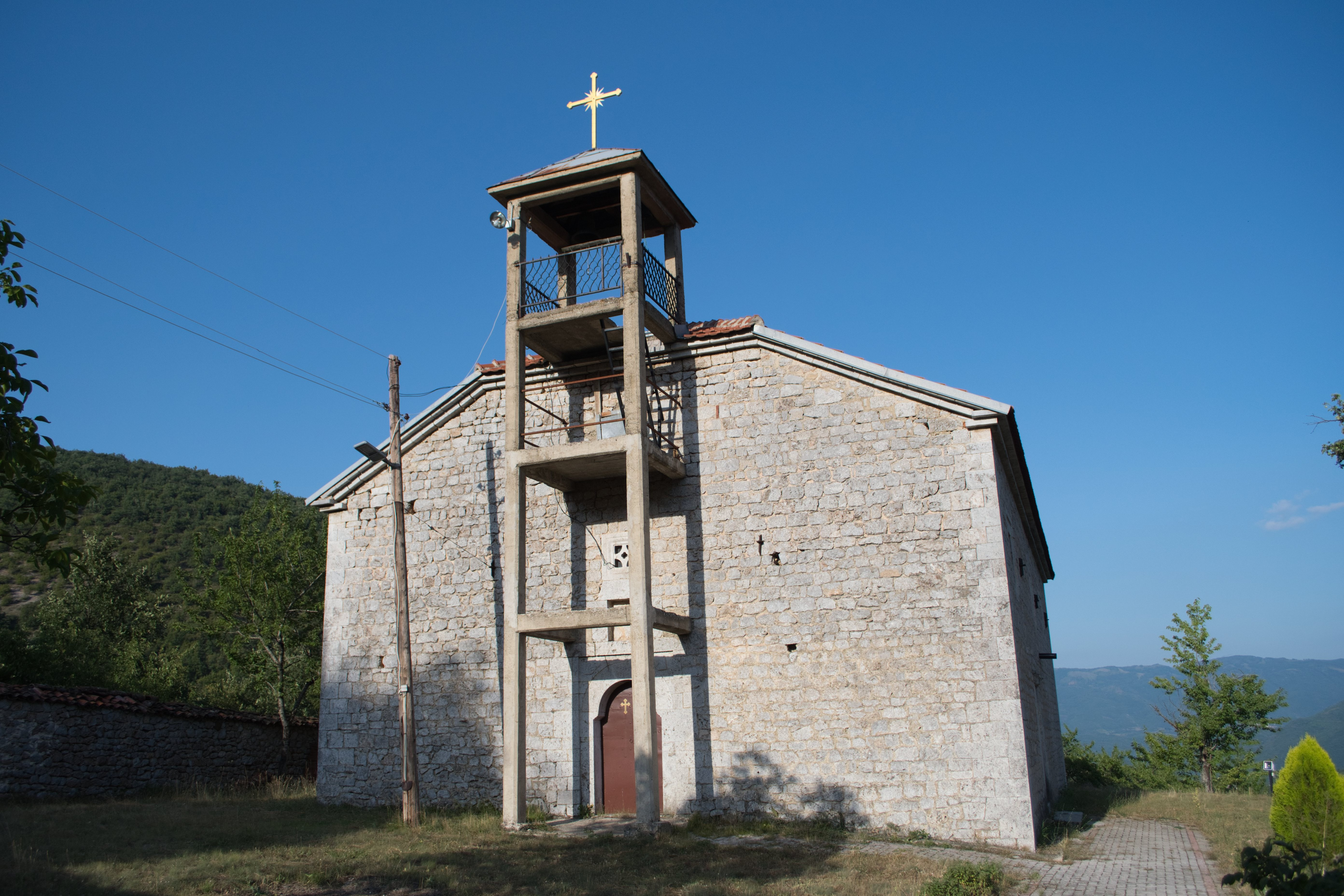 St. Elijah Church in the village of Jablanica